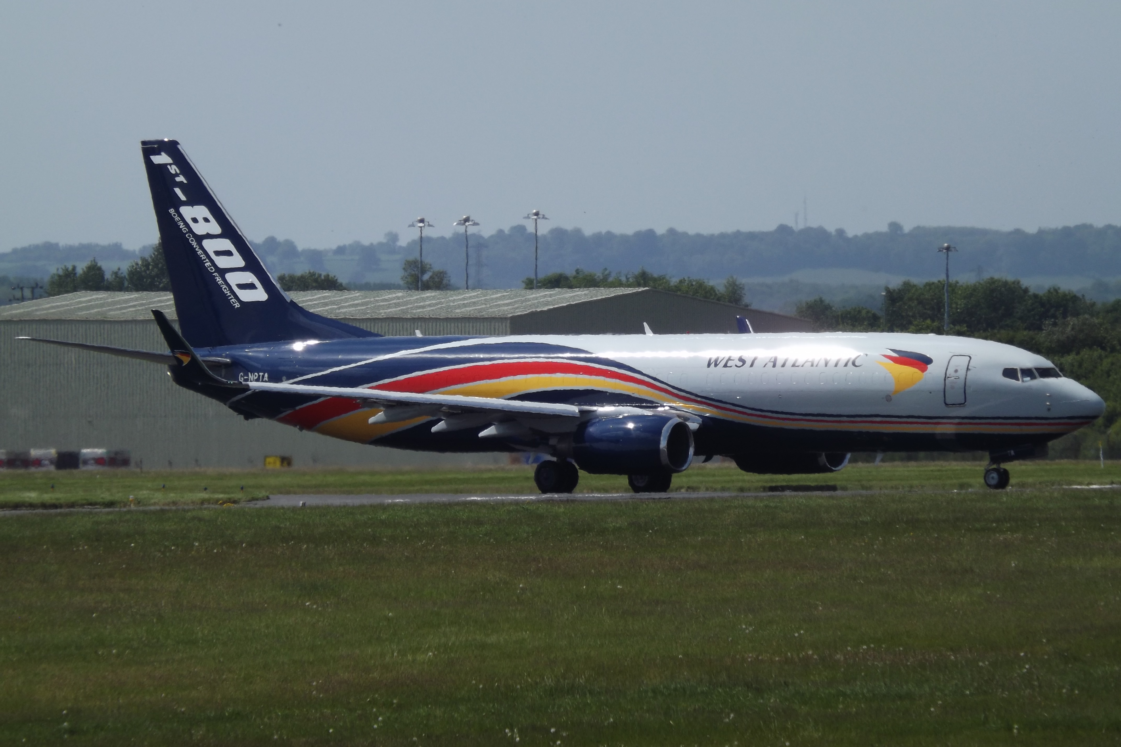 G-NPTA Boeing 737-86N BCF of West Atlantic UK at East Midlands Airport, the first 737-800BCF